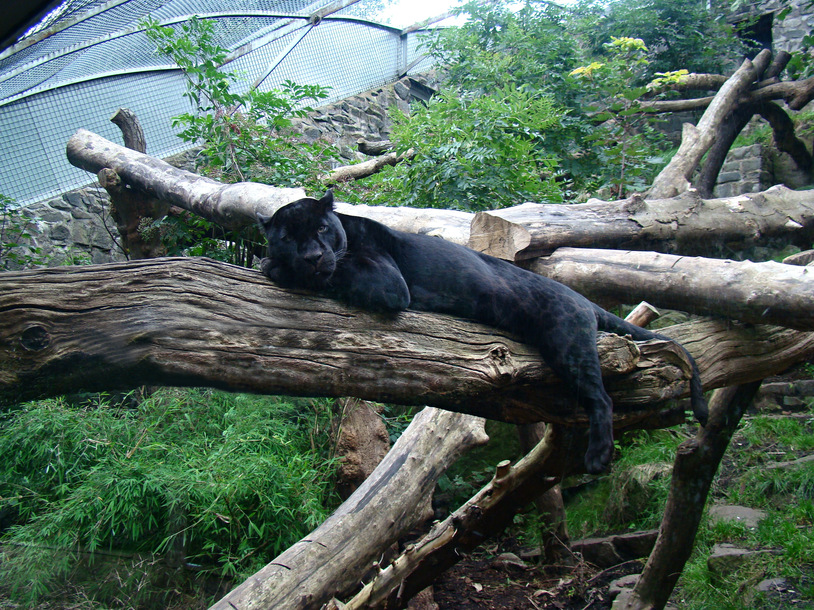 A jaguar in Edinburgh Zoo.